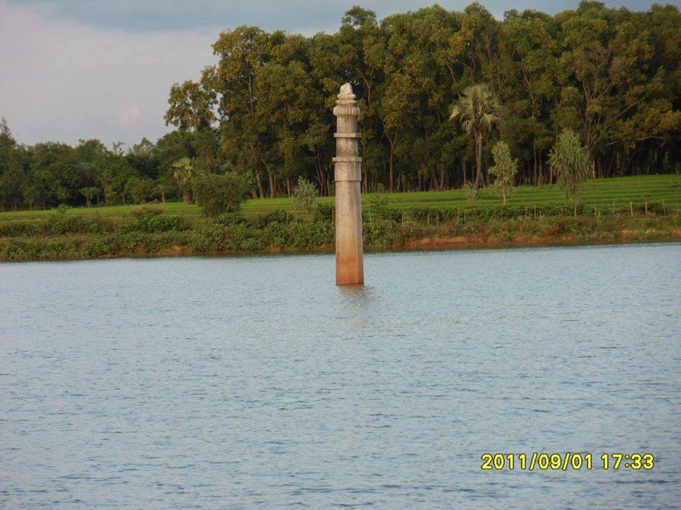 Historical Pond